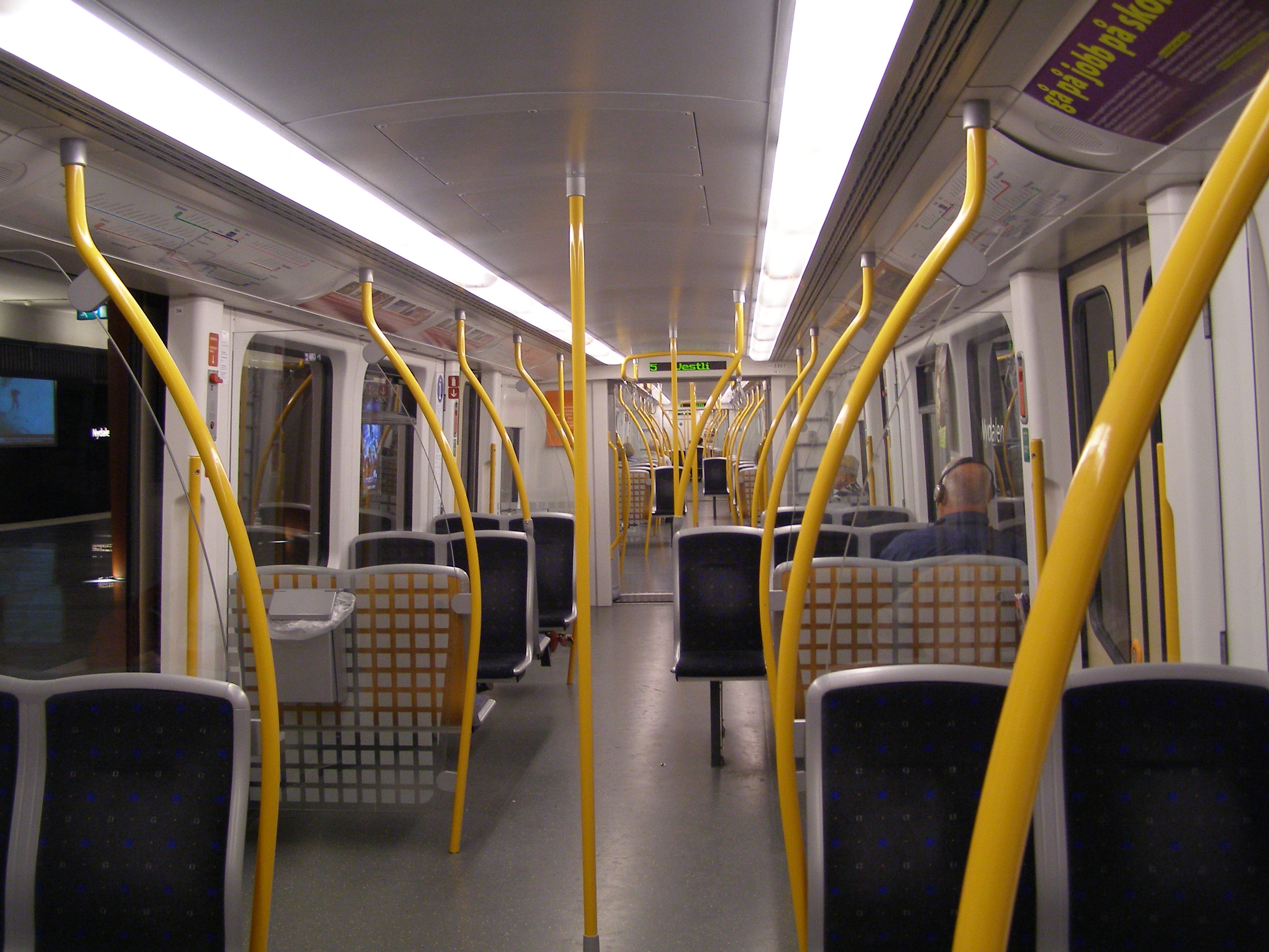 Inteorior of MX3000 train of the Oslo Metro